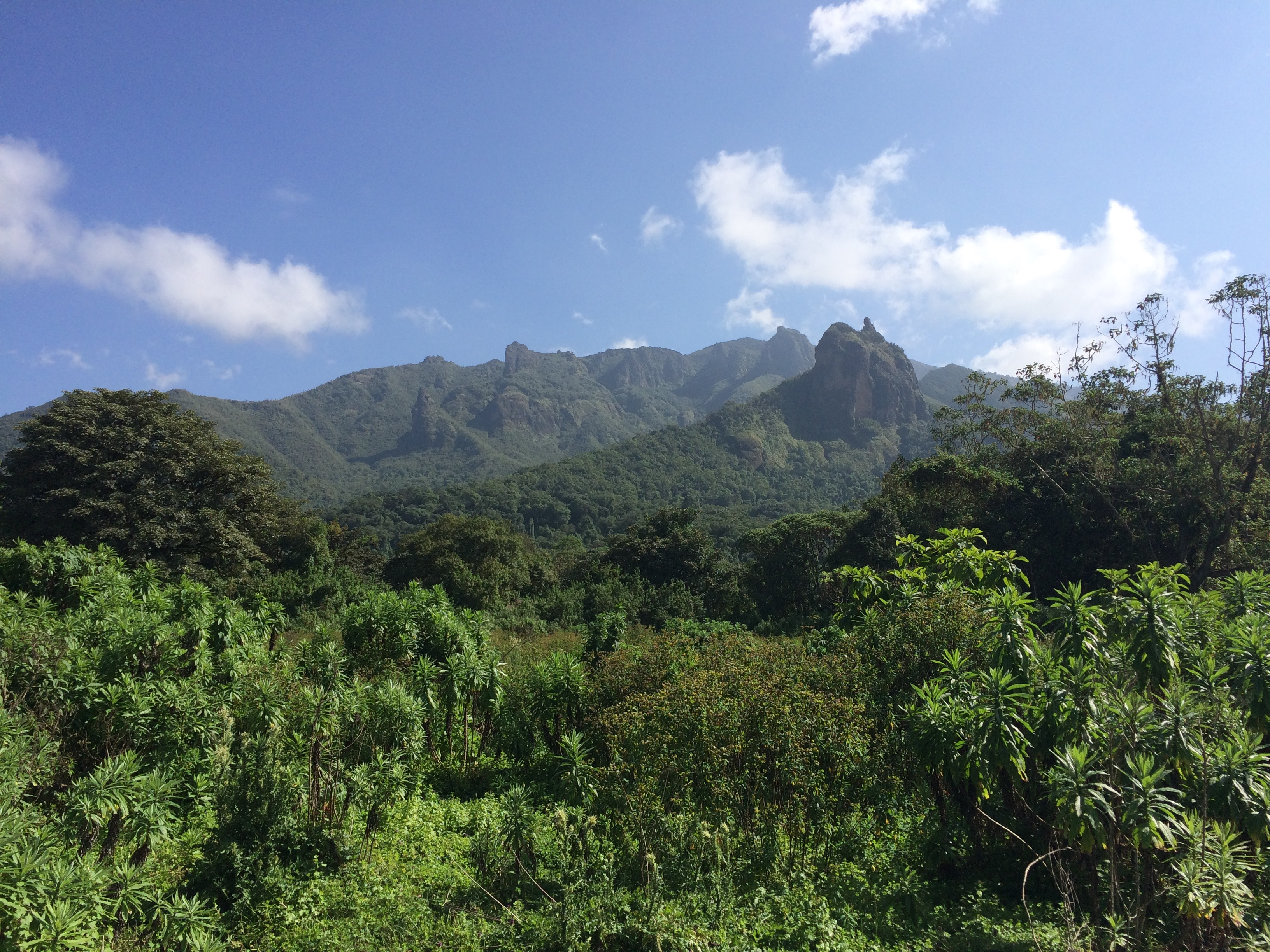 Harenna Forest with Bale Mountains rising behind. From Bale Mountains Lodge.